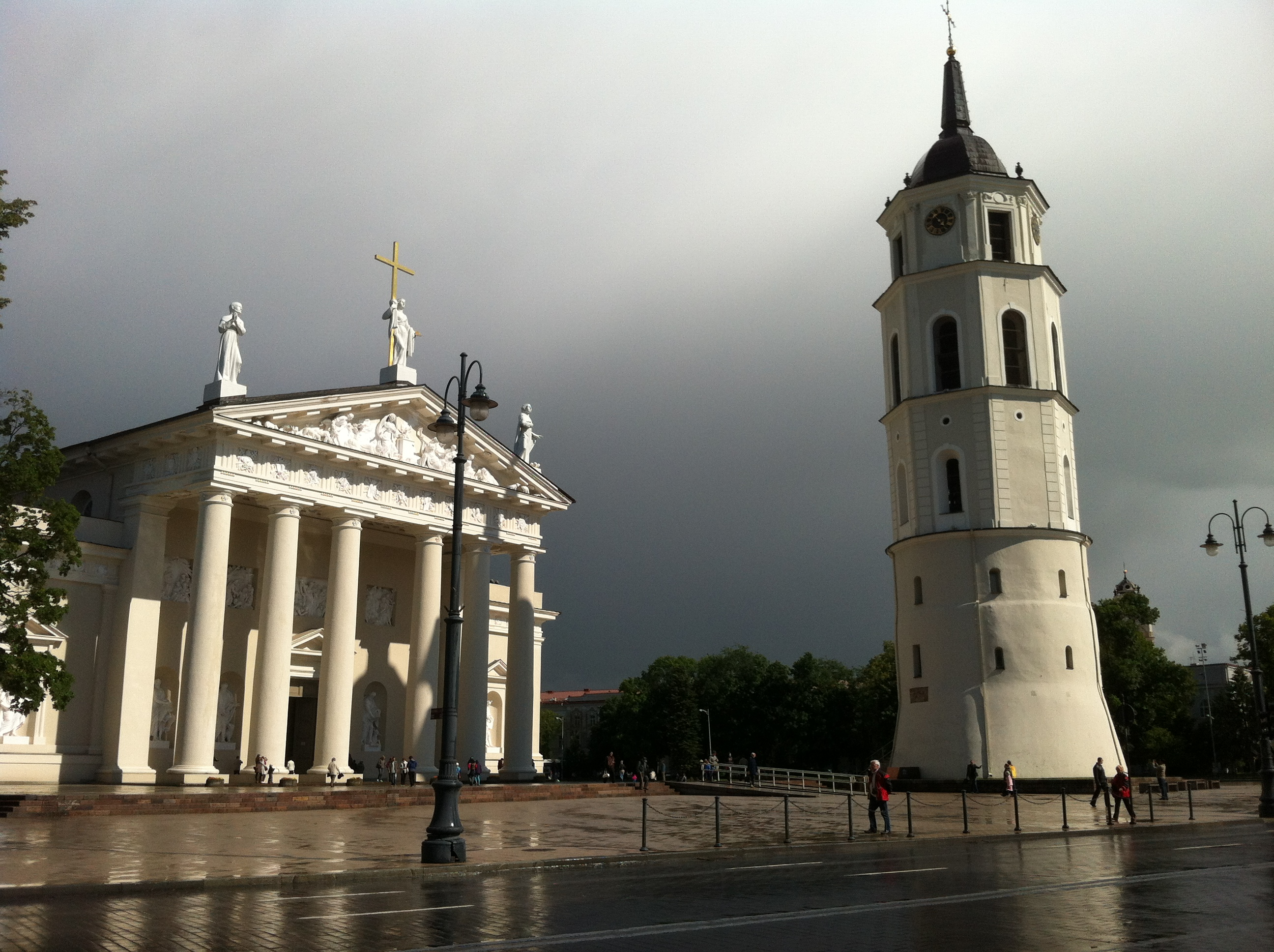 Vilnius Cathedral after the storm